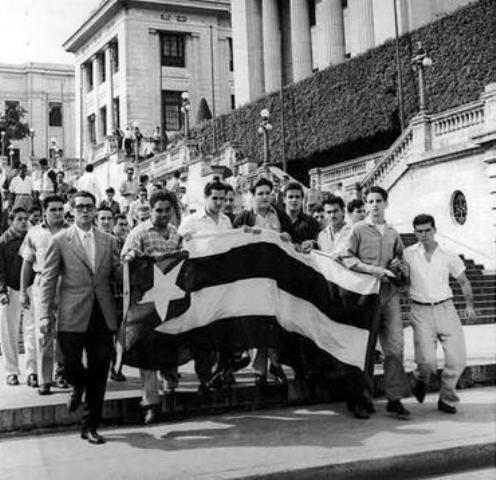 Directorio Revolucionario_Jose Antonio Echevaria, juan-pedro-carbo. University of Havana, Cuba.